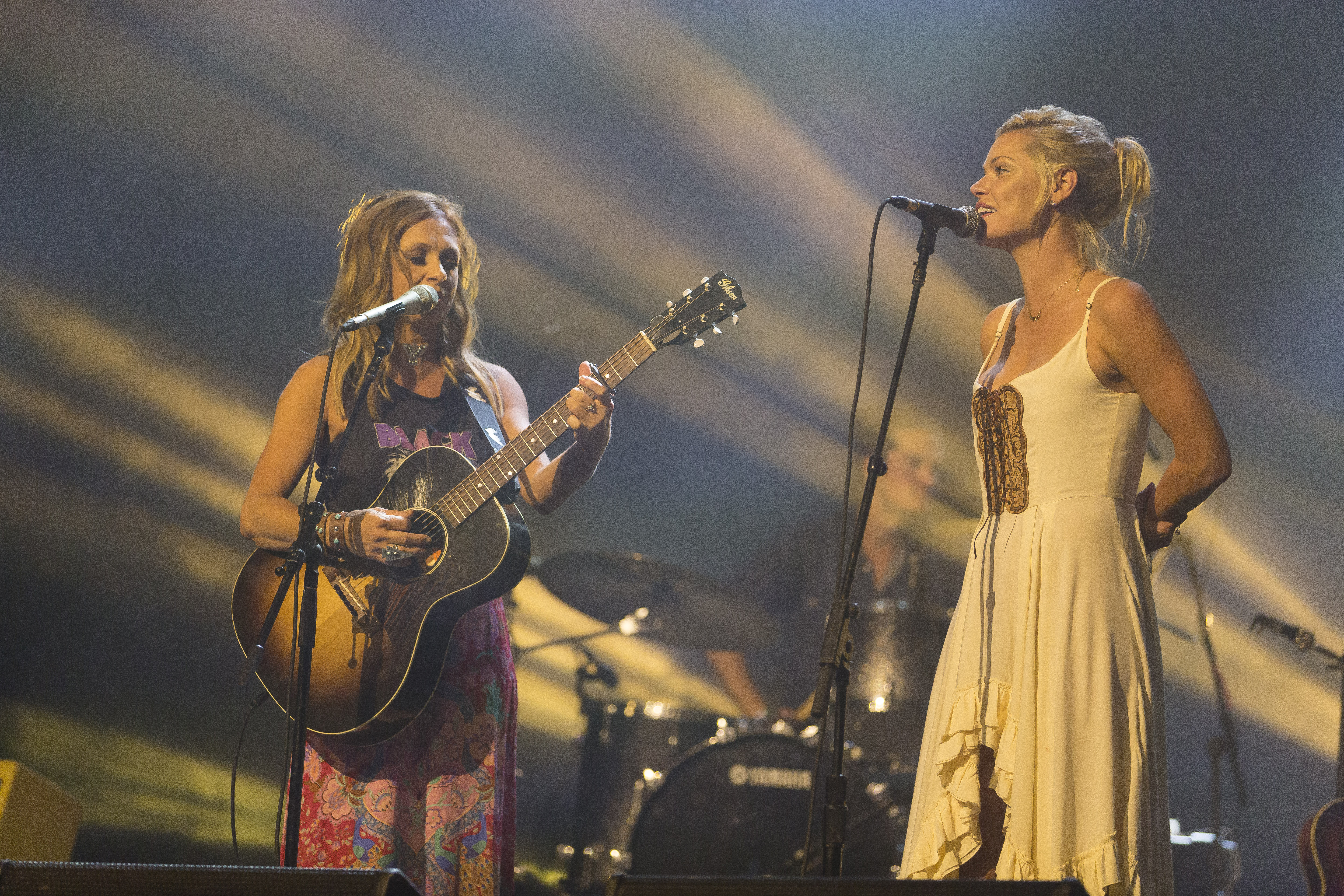 Two Australian singers performing at Bluesfest, Byron Bay, April 2017